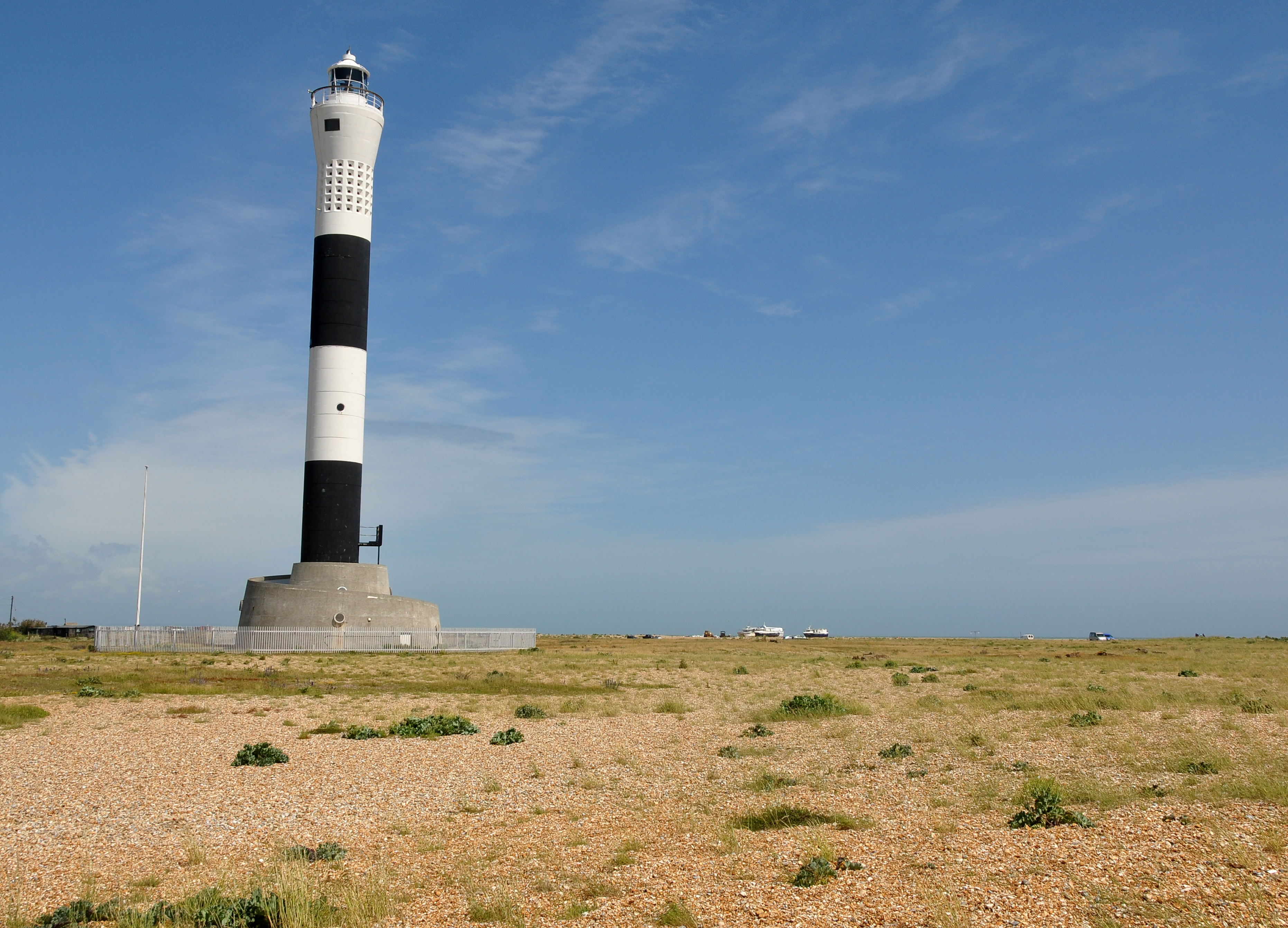 Dungeness New Lighthouse in Kent.